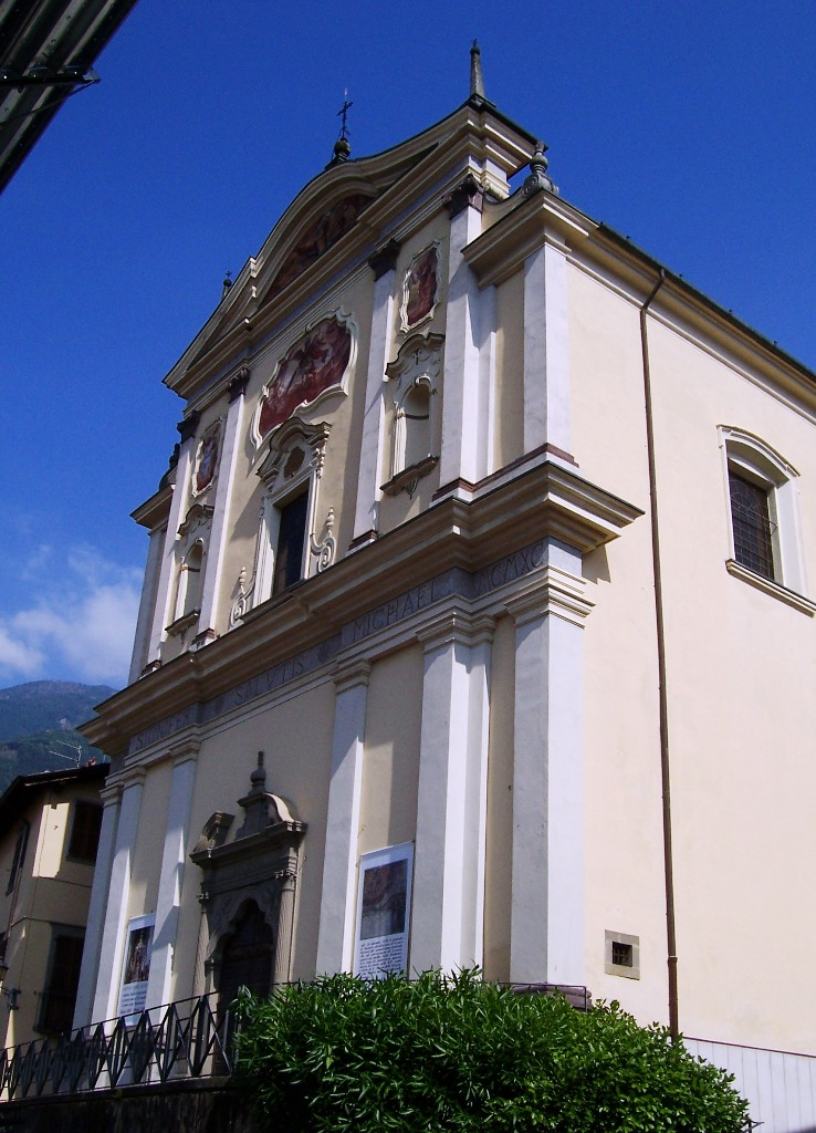 Church of San Michele Arcangelo. Gianico, Val Camonica